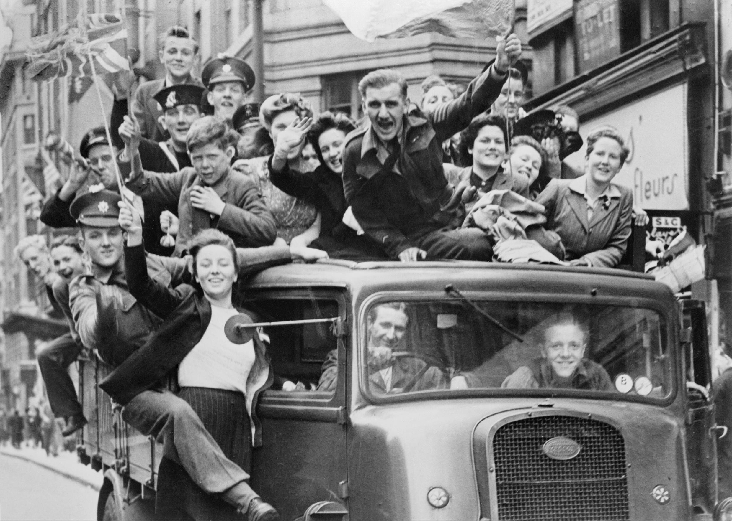 Ve Day Celebrations in London, 8 May 1945 A truck of revellers passing through the Strand, London